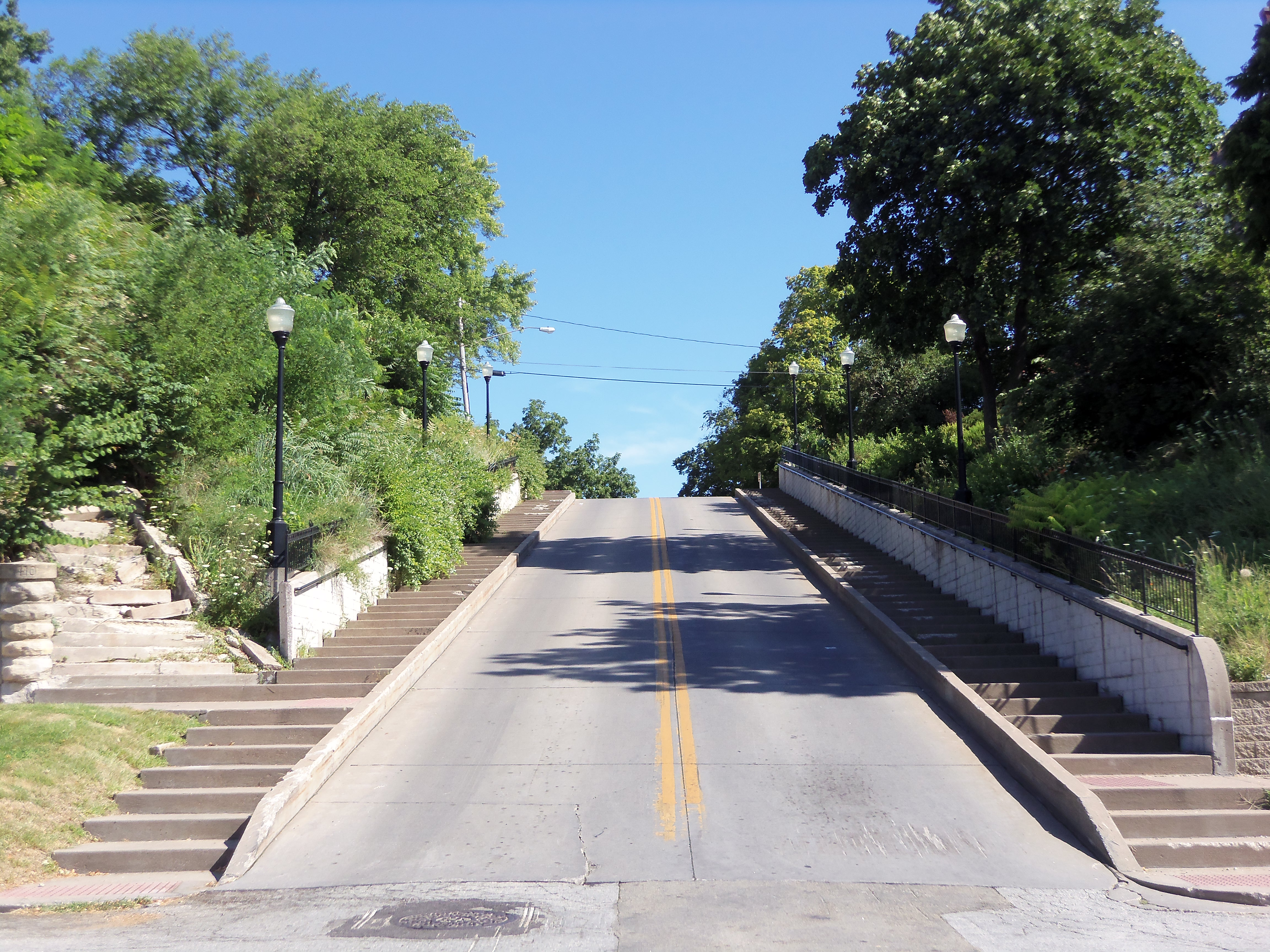 Steps that climb the hill on Ripley Street in Davenport, Iowa. It is part of the Hamburg Historic District.